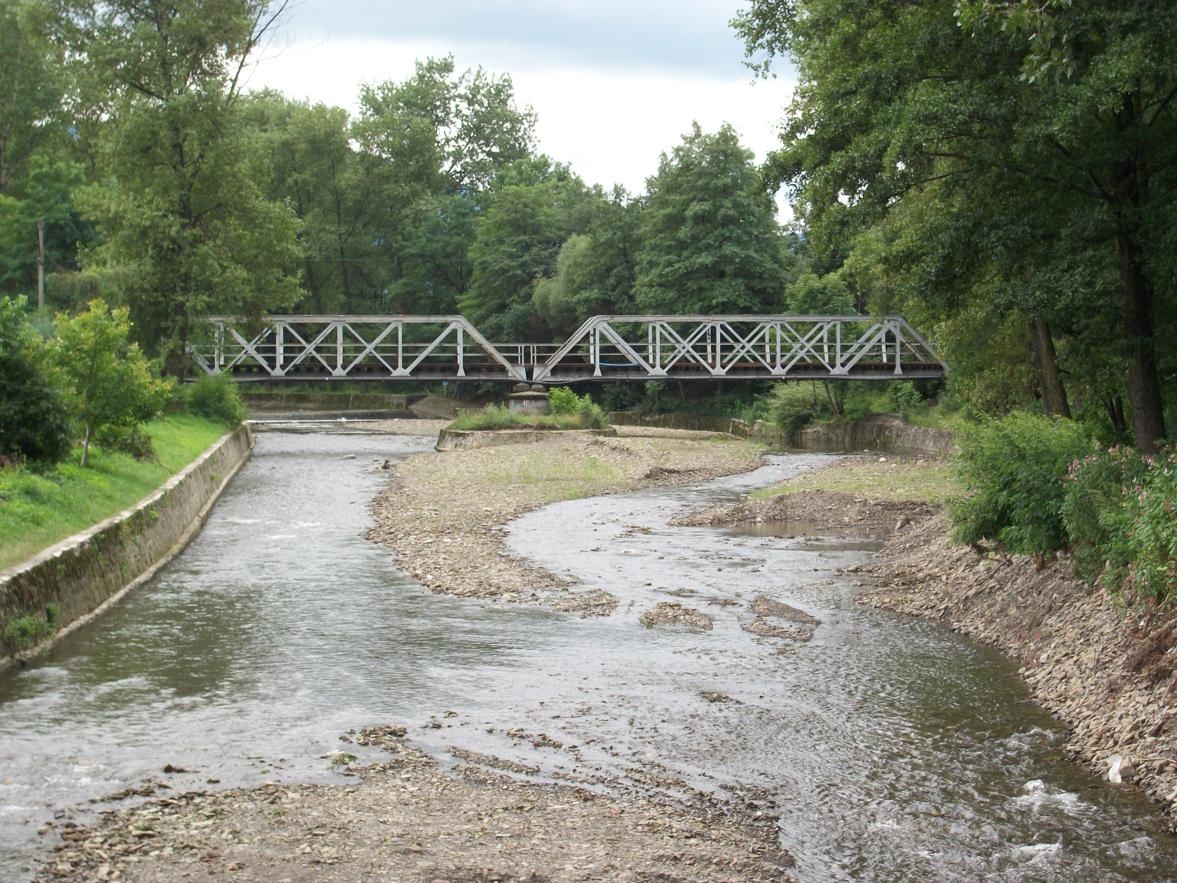 Andrychow - Bridge on the Wieprzowka River.